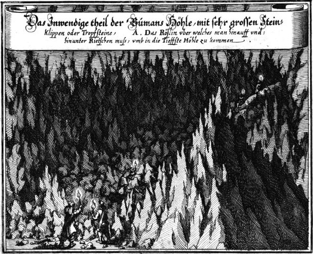 Baumannshöhle - Baumann's Cave, drawn by Conrad Buno commissioned by Augustus the Younger, Duke of Brunswick-Lüneburg, and published in the Merian “Topographia Braunschweig-Lüneburg”.